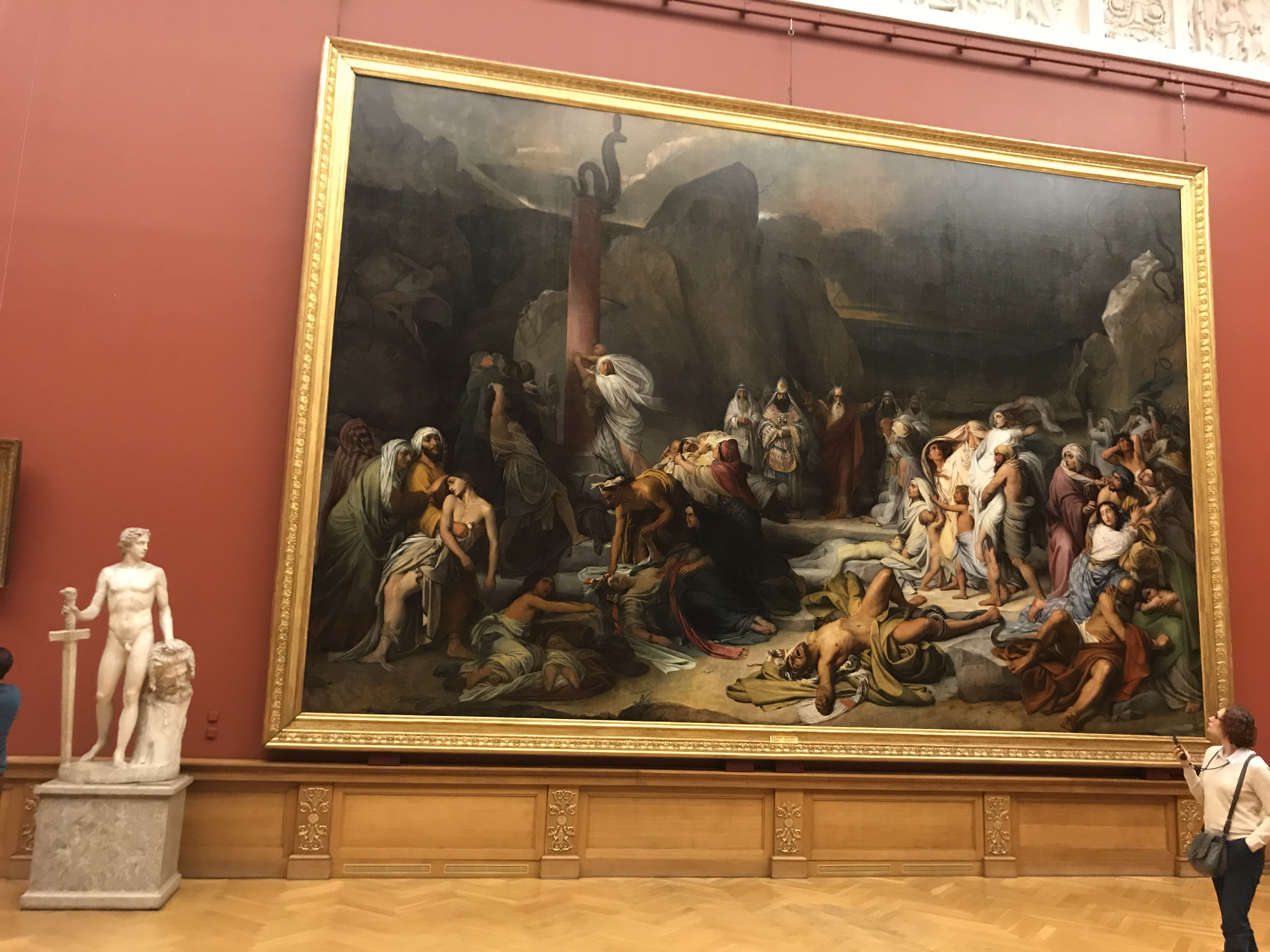 "The Brazen Serpent" (painting by Fyodor Bruni, 1841) in the State Russian Museum